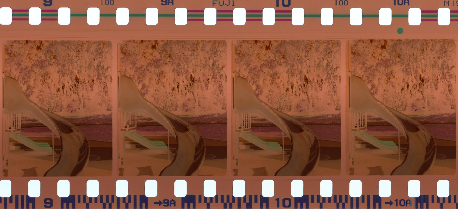 Negative strip from Nimslo, note the green dot, it is produced by a red L.E.D., but appears green on the negative